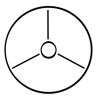 The symbol that the Mukden arsenal put upon guns and bayonets that they made